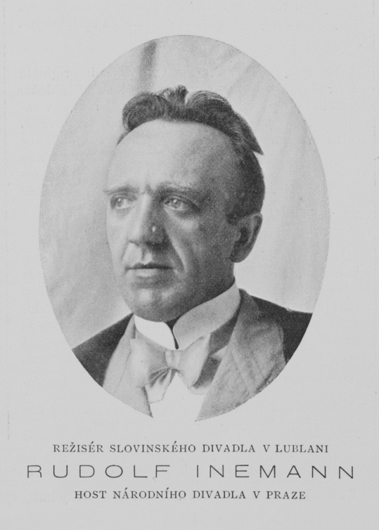 Potrait of Rudolf Inemann (1861-1907), Czech actor and director active mainly in Ljubljana, (present-day) Slovenia.